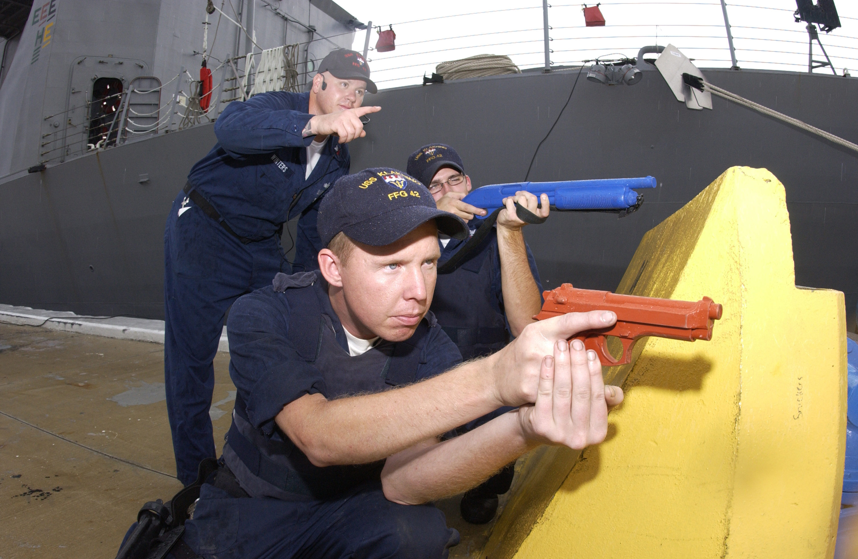 Mayport, Fla. (Oct. 18, 2006) - Fire Controlman 1st Class instructs Sonar Technician 3rd Class Garrett Teague and Boatswain’s Mate Seaman Ryan Pursser during force protection training. Smith, Teague and Pursser are currently stationed aboard the guided missile frigate USS Klakring (FFG 42). U.S. Navy photo by Mass Communication Specialist 2nd Class Christopher Brown (RELEASED)